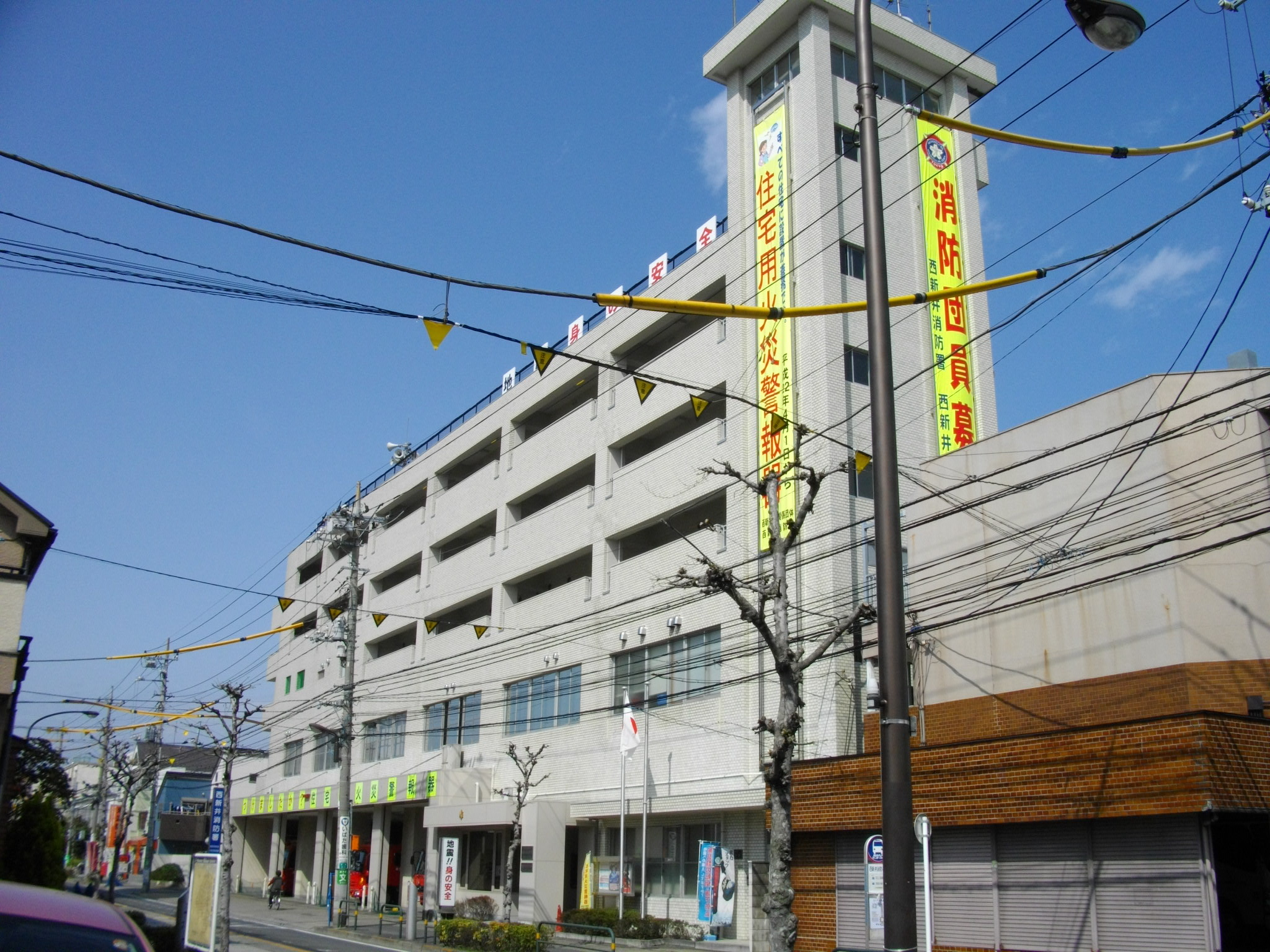 Nishiarai Fire Station